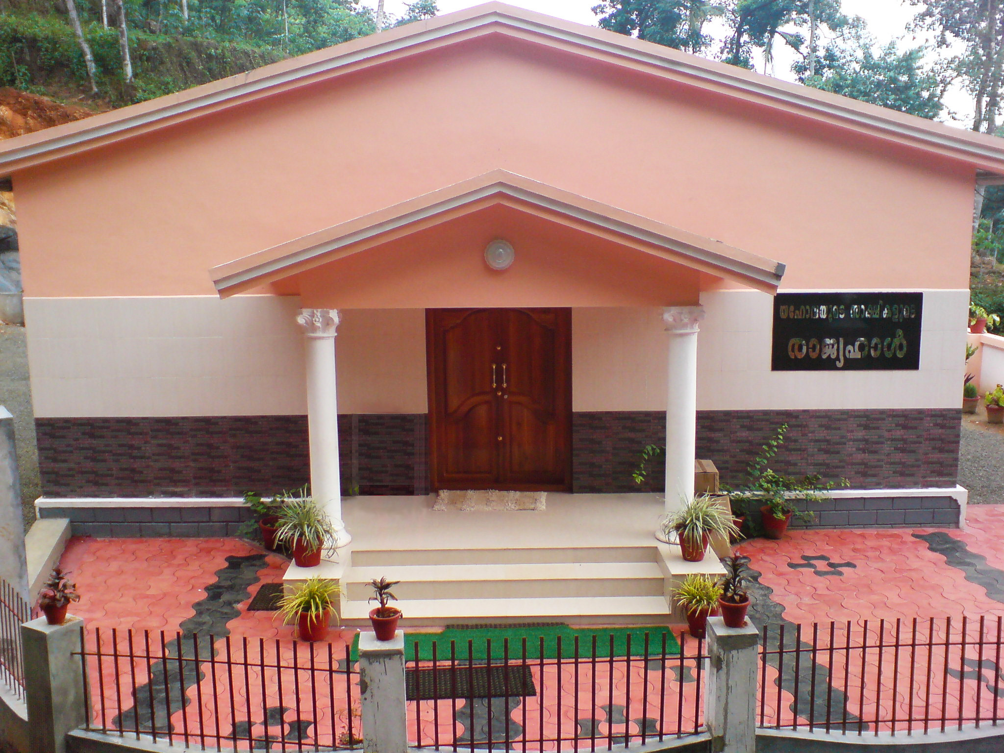 One kingdom hall of jehovah's witnesses in kerala,India